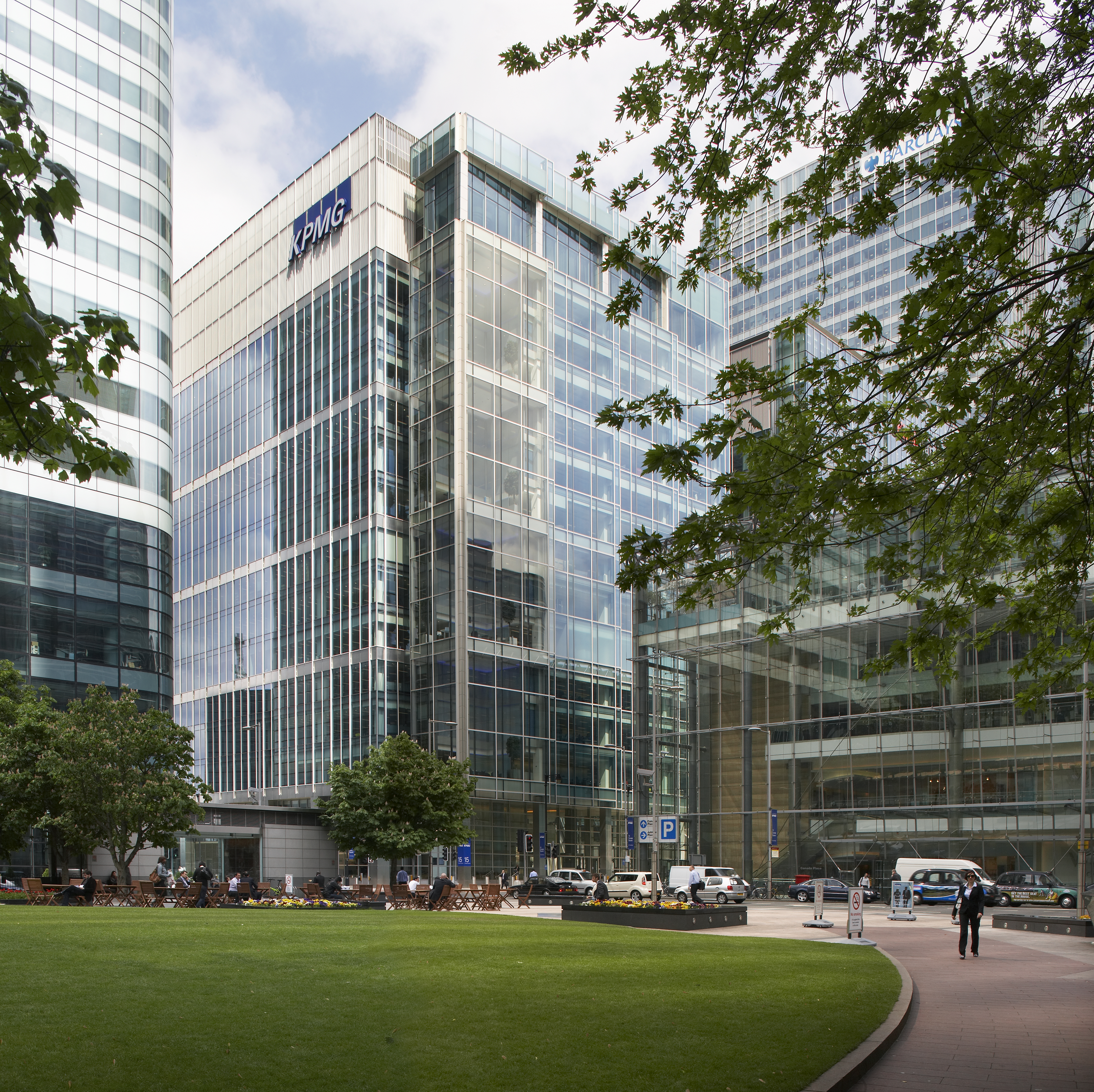 15 Canada Square in Canary Wharf, London. The headquarters of KPMG in the UK.